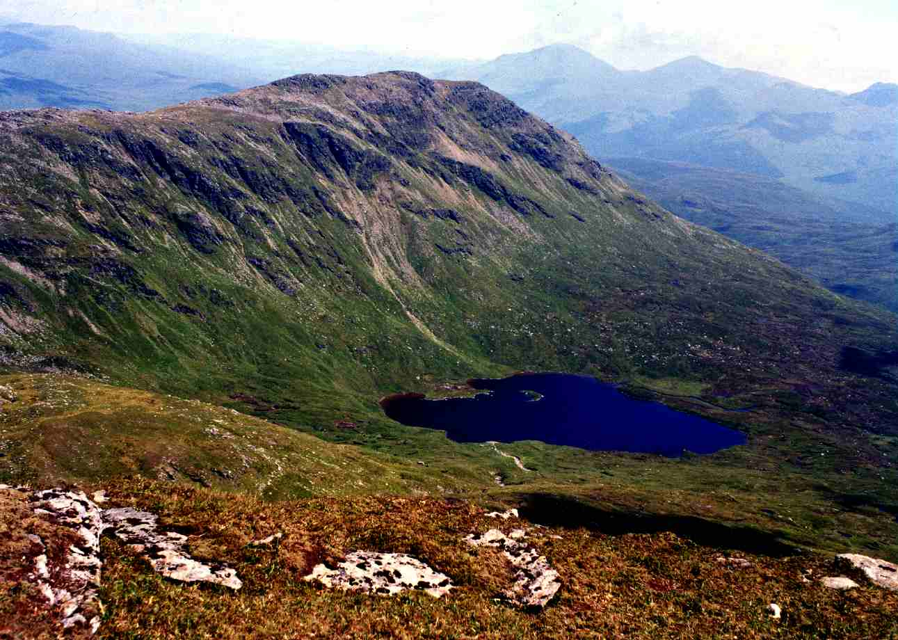 Personal picture taken by Mick Knapton